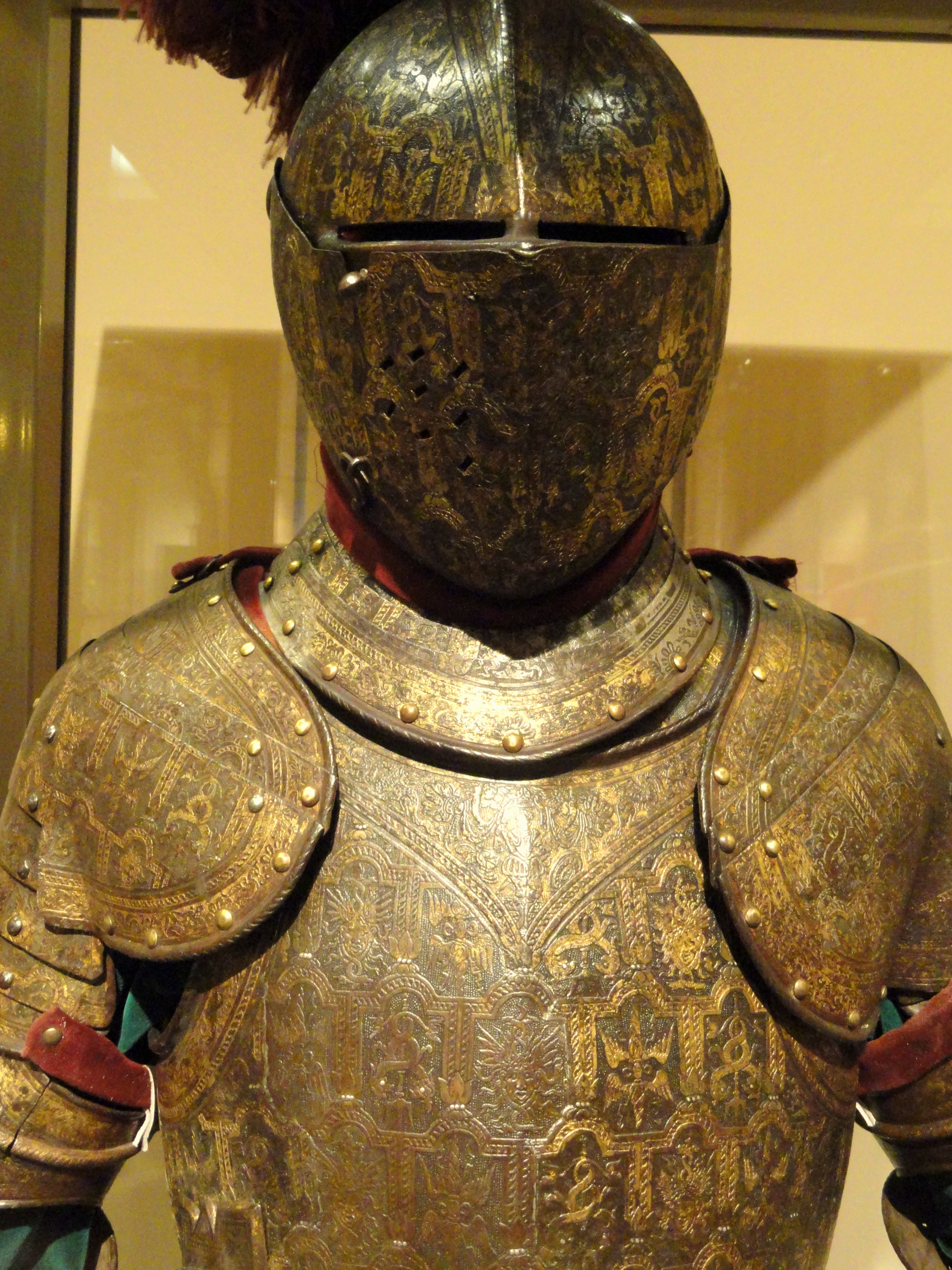 Exhibit in the Higgins Armory Museum, 100 Barber Avenue, Worcester, Massachusetts, USA. The museum permitted photography without any restriction, both in writing and when I asked verbally.